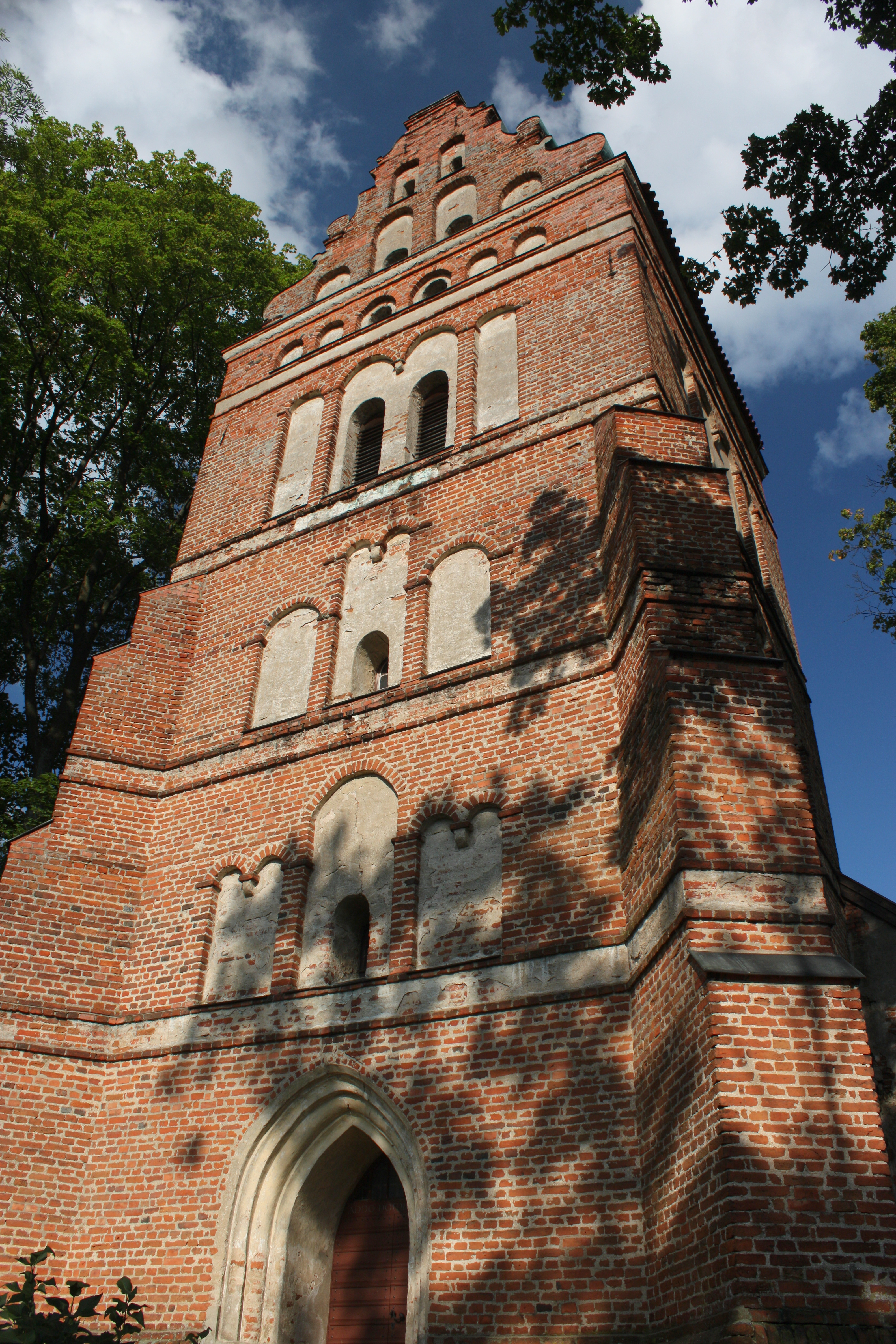 Lutheran church in Dźwierzuty and cemetery nearby.